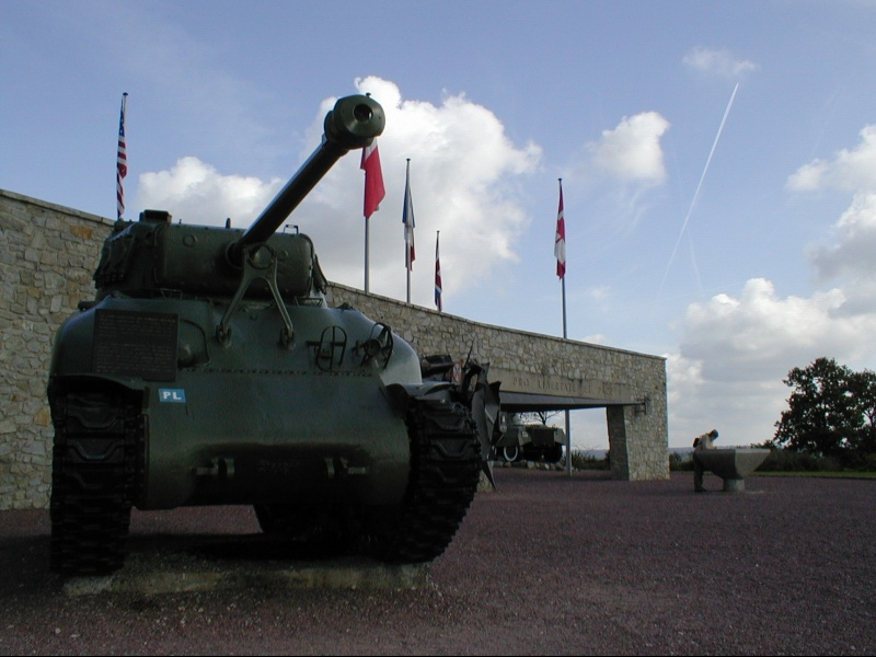 Mont Ormel Monument